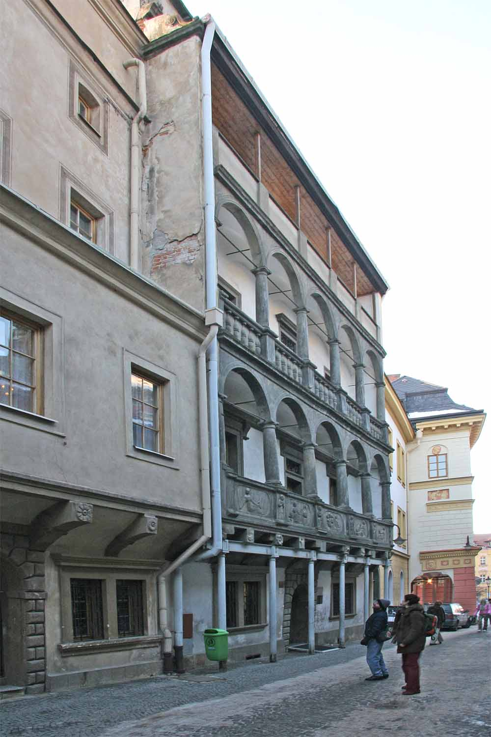 The Renaissance (1570s) Mydlářs House above town walls in Chrudim, Czech Republic.